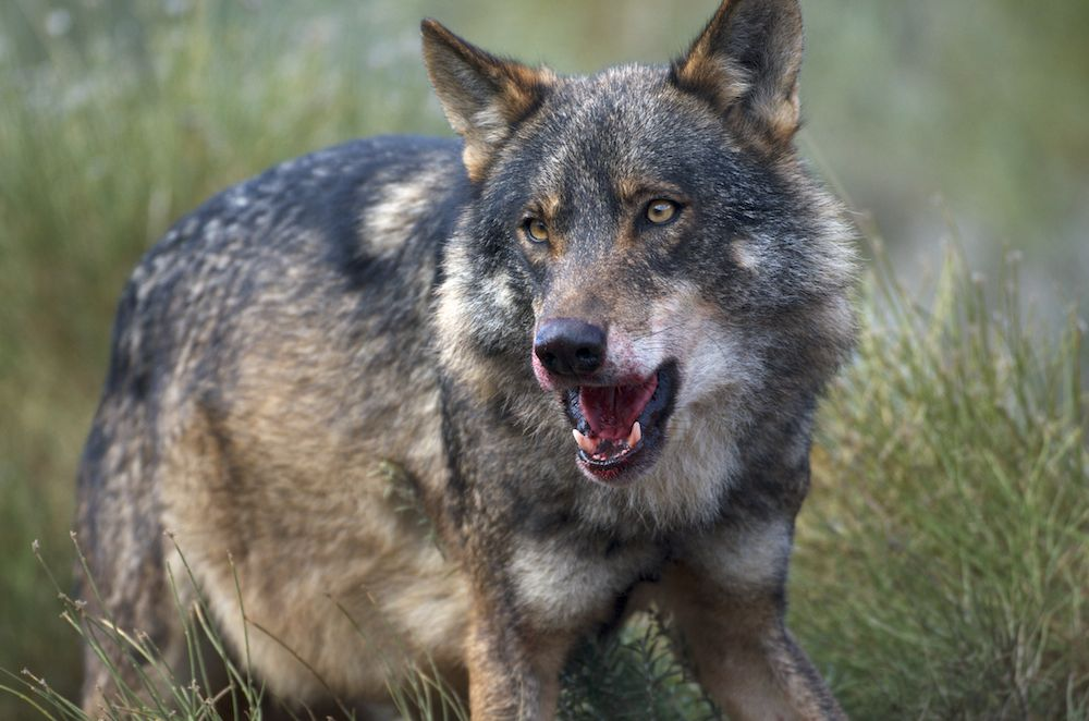 Alpha Male Iberian Wolf (Canis lupus signatus)